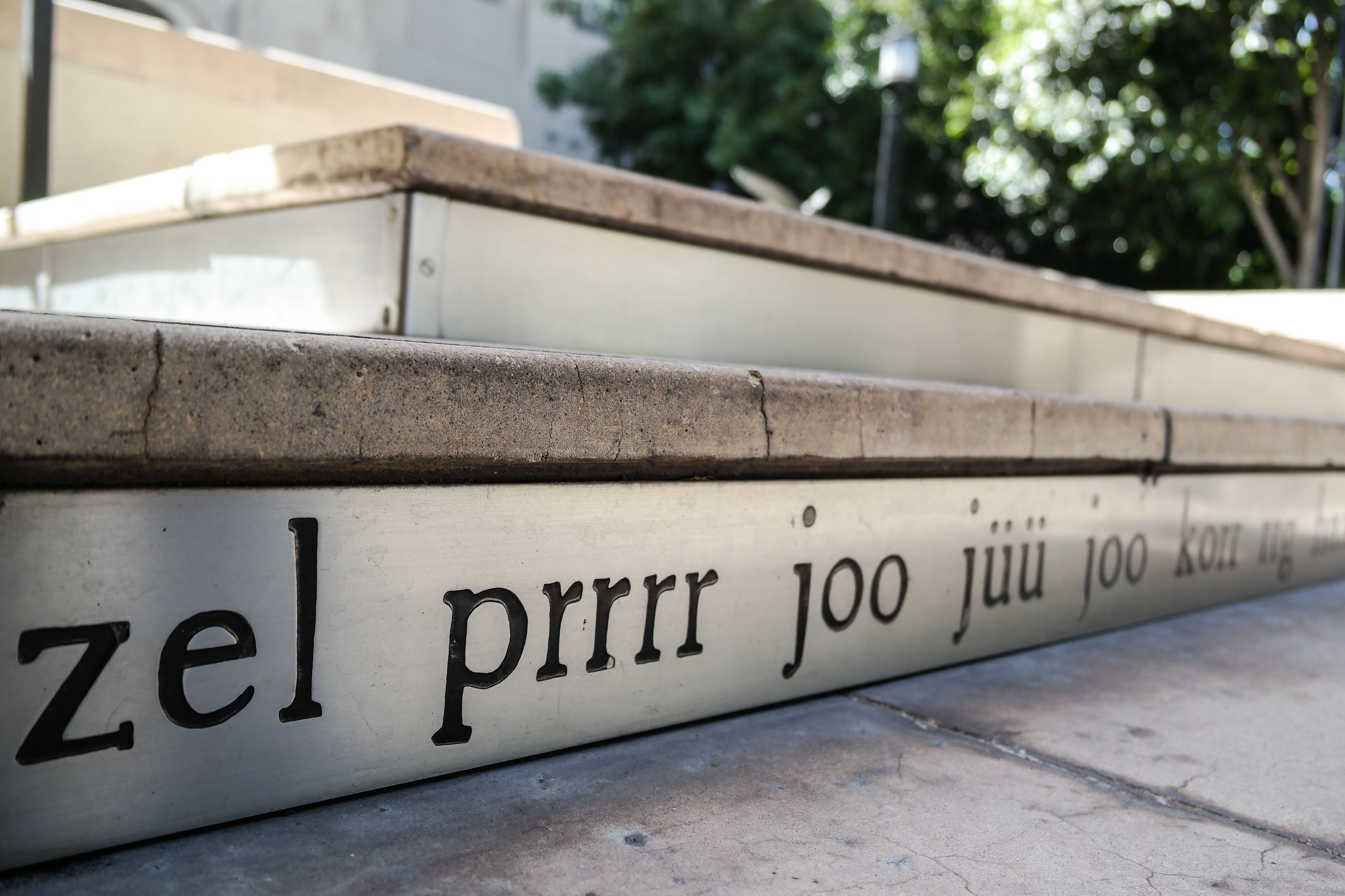 Various languages are represented on steps leading to the Los Angeles Central Library